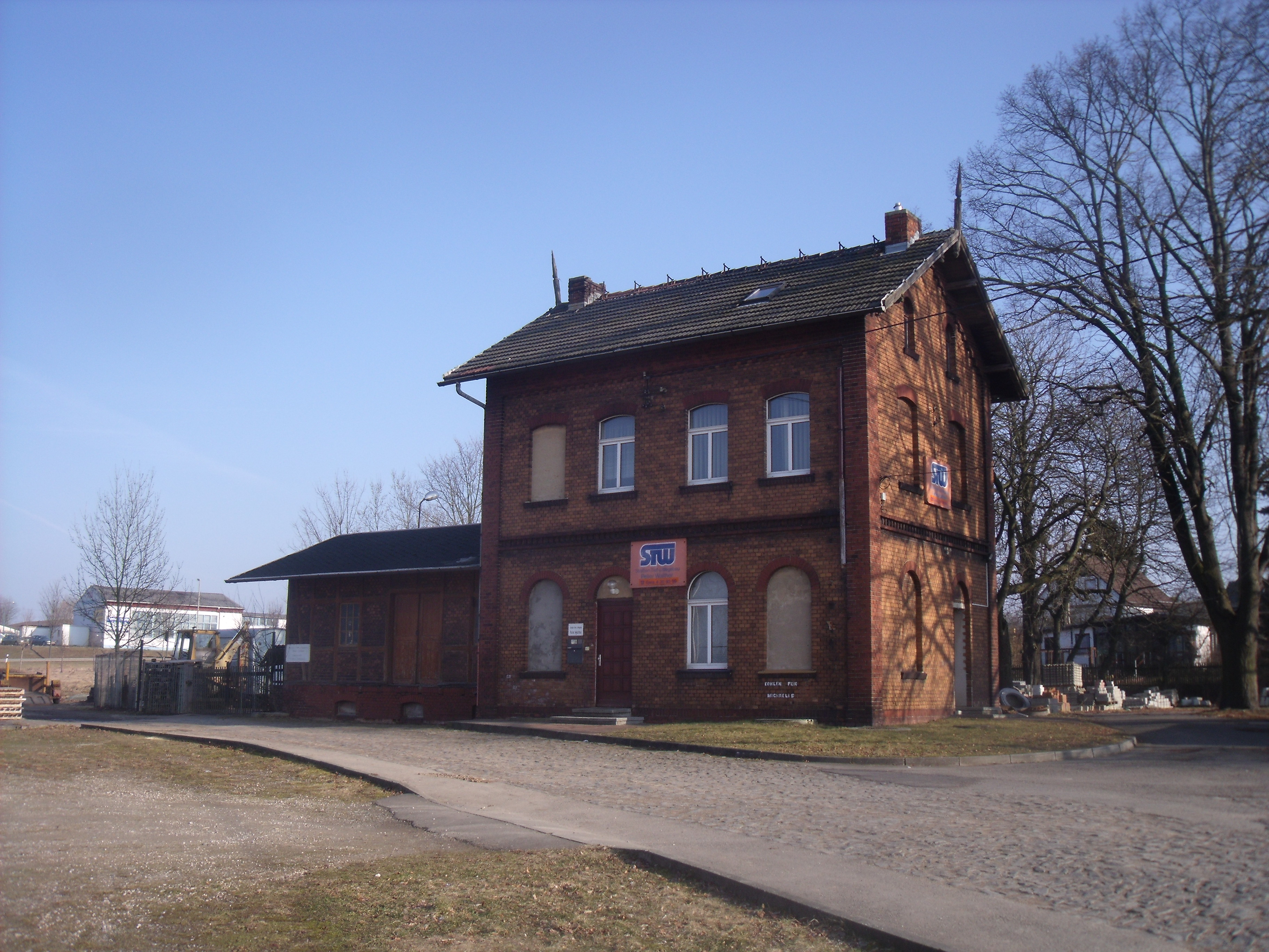 Former Leumnitz station of the abandoned Gera-Meuselwitz-Wuitzer-Eisenbahn (GMWE), condition in the year 2011